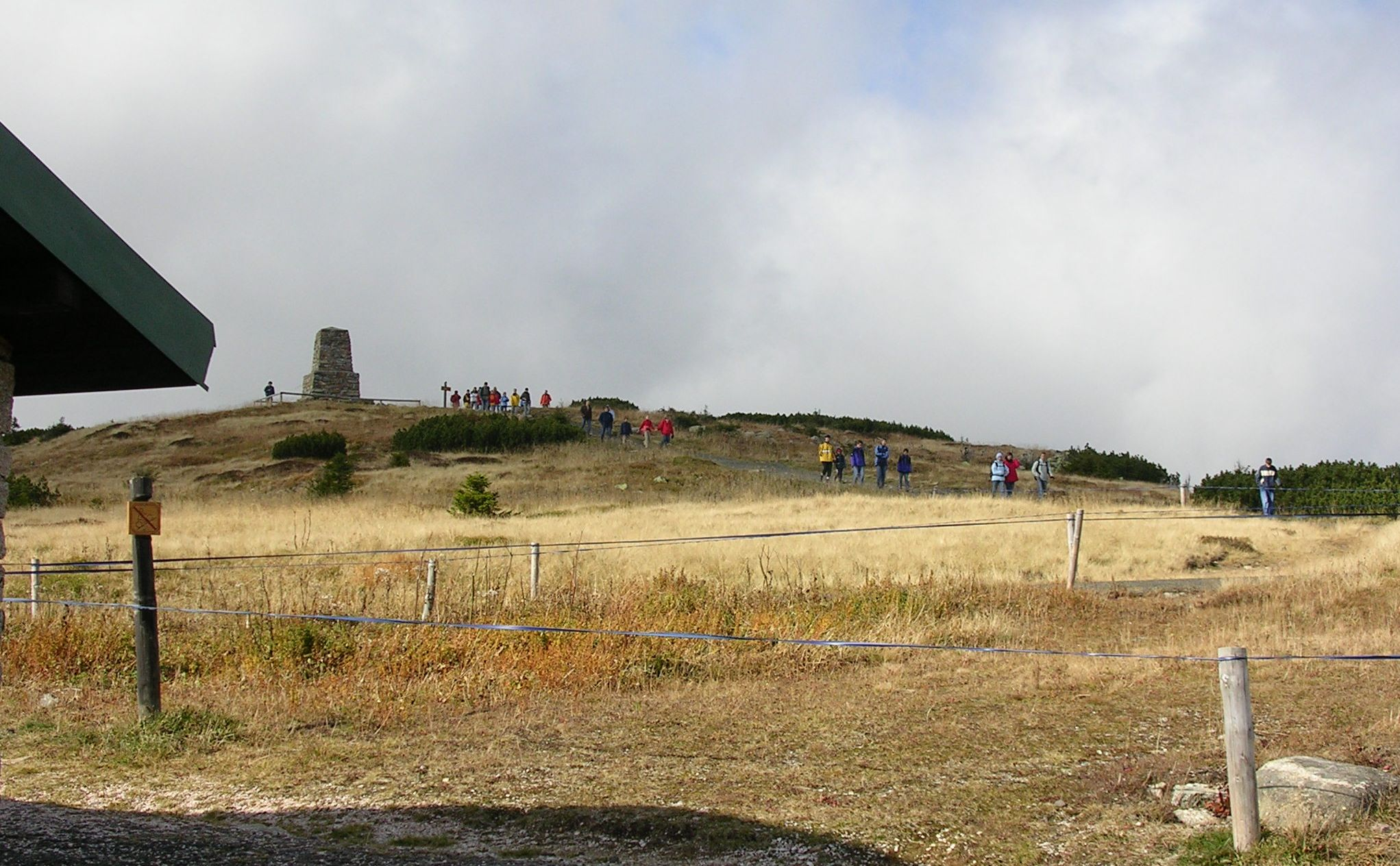 A monument of Hanč and Vrbata near Vrbatova bouda. Municipality Vítkovice, Liberec Region, the Czech Republic.